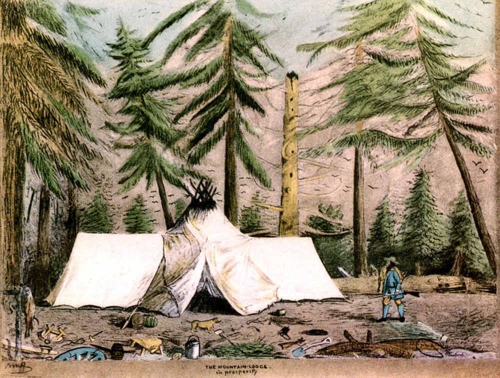 Joseph Goldsborough Bruff’s "mountain lodge" in the Sierra Nevada Mountains, pained by Bruff in 1849. Bruff died in 1889.